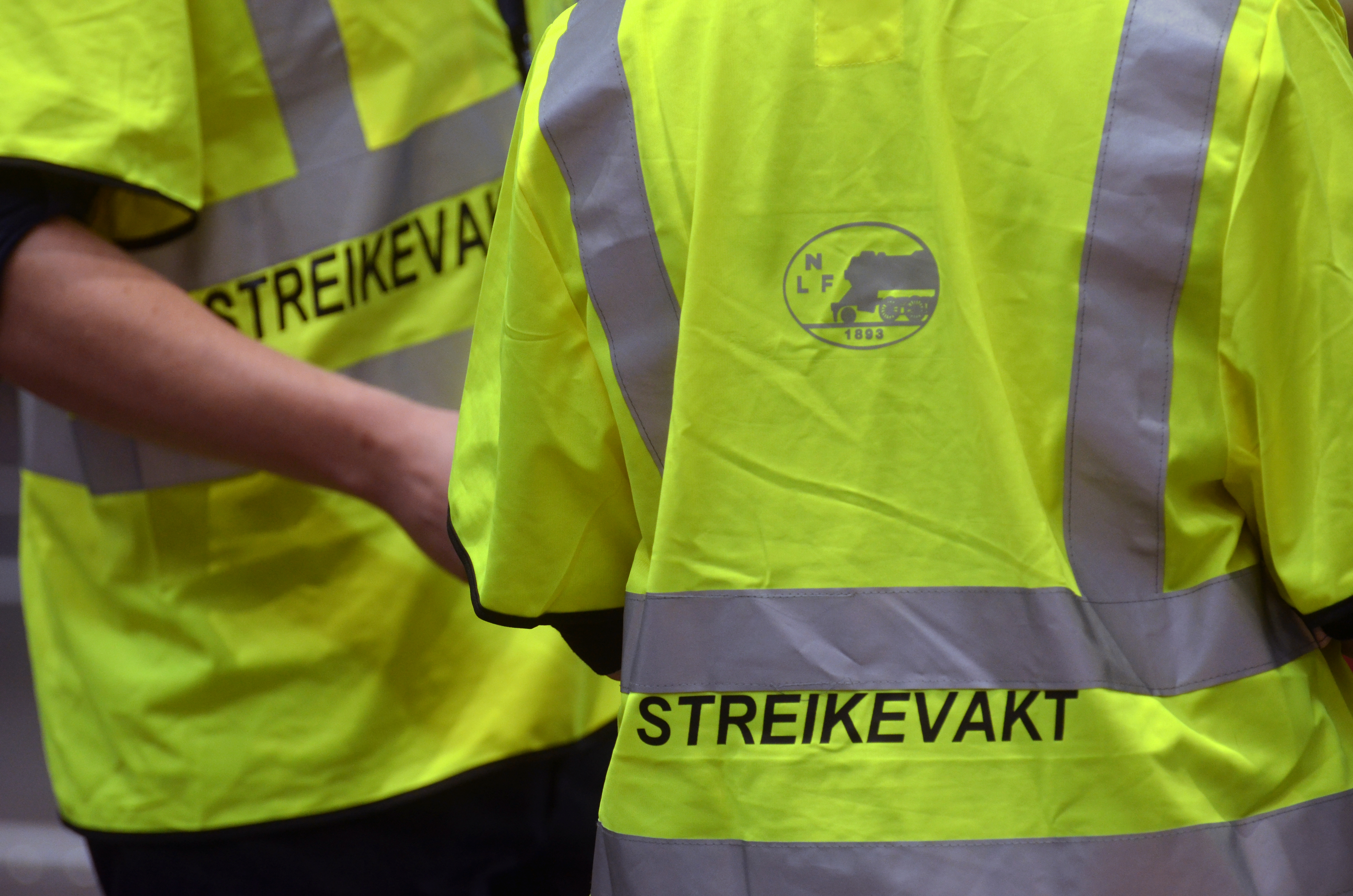 Norwegian train drivers on strike in Oslo, 2016.